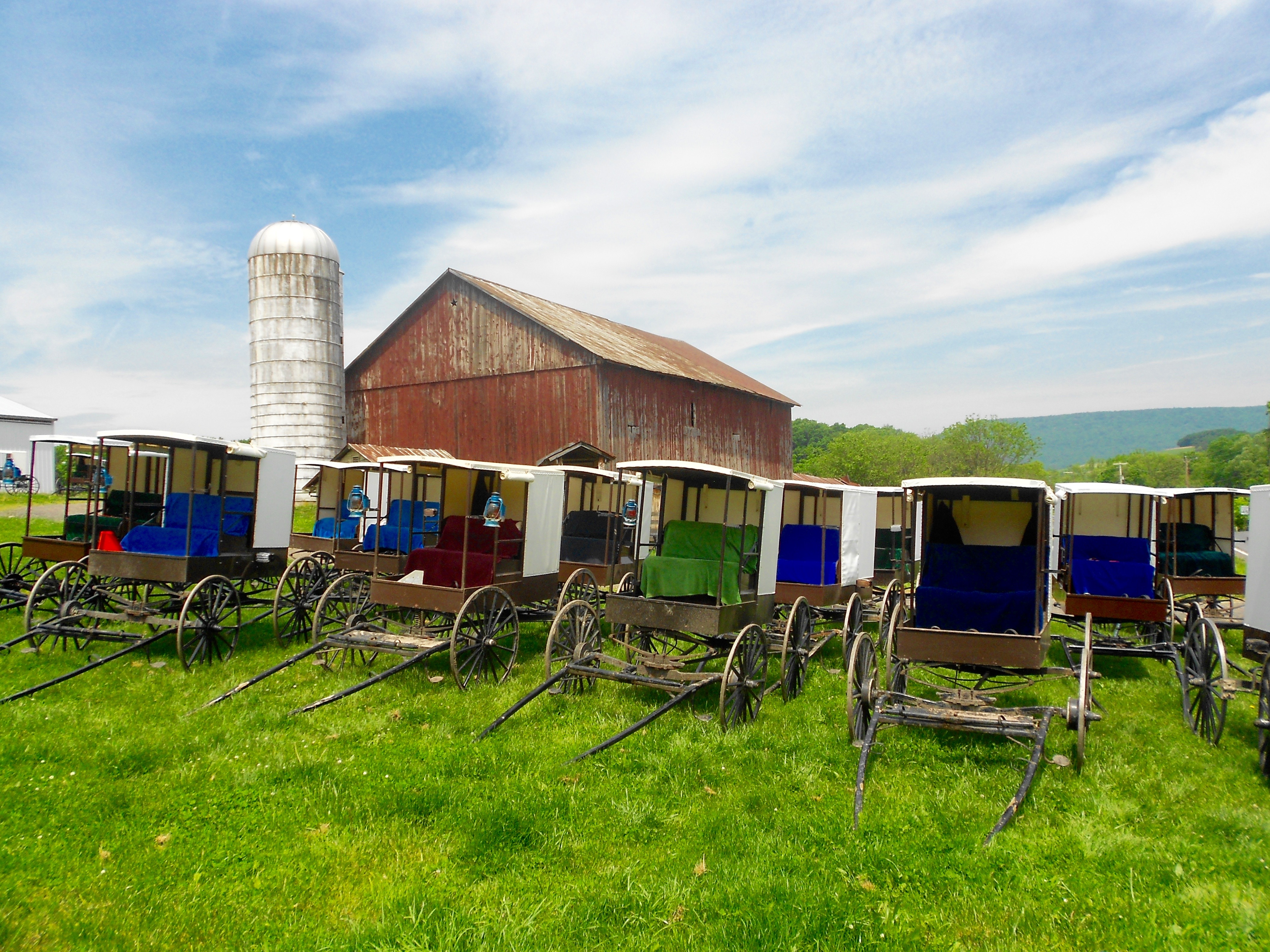 White topped buggies parked on a hill early Sunday morning in West Beaver Township, Snyder County, Pennsylvania. I'm guessing that these are Mennonite buggies because there is something like a church or meetinghouse behind the photographer (me). Amish generally meet in people's houses. The white topped buggies would be unusual in the better known Amish area of Lancaster County, PA, but white topped and yellow topped buggies are the most common in Snyder and Mifflin Counties.